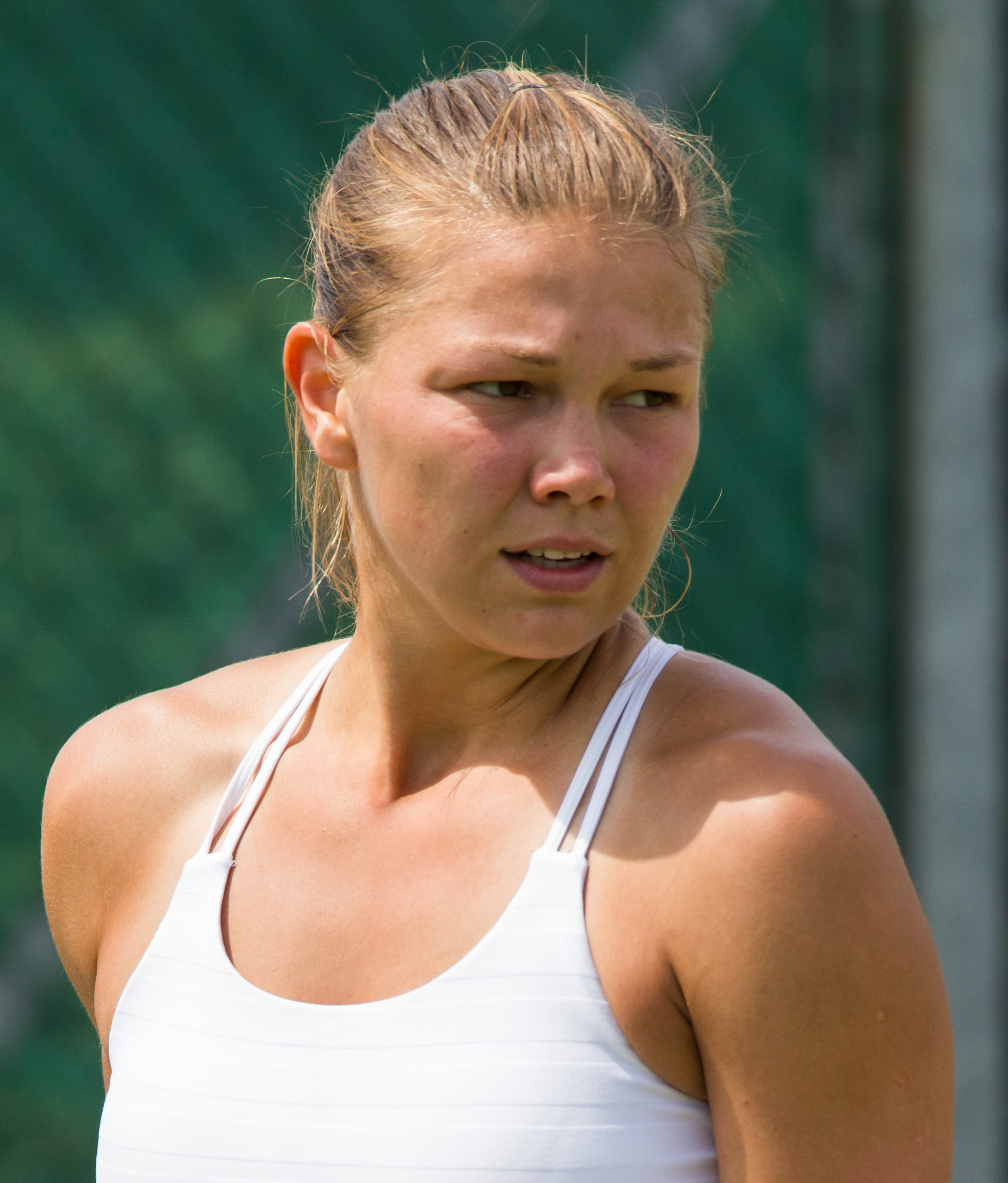 Marina Melnikova competing in the second round of the 2015 Wimbledon Qualifying Tournament at the Bank of England Sports Grounds in Roehampton, England. The winners of three rounds of competition qualify for the main draw of Wimbledon the following week.